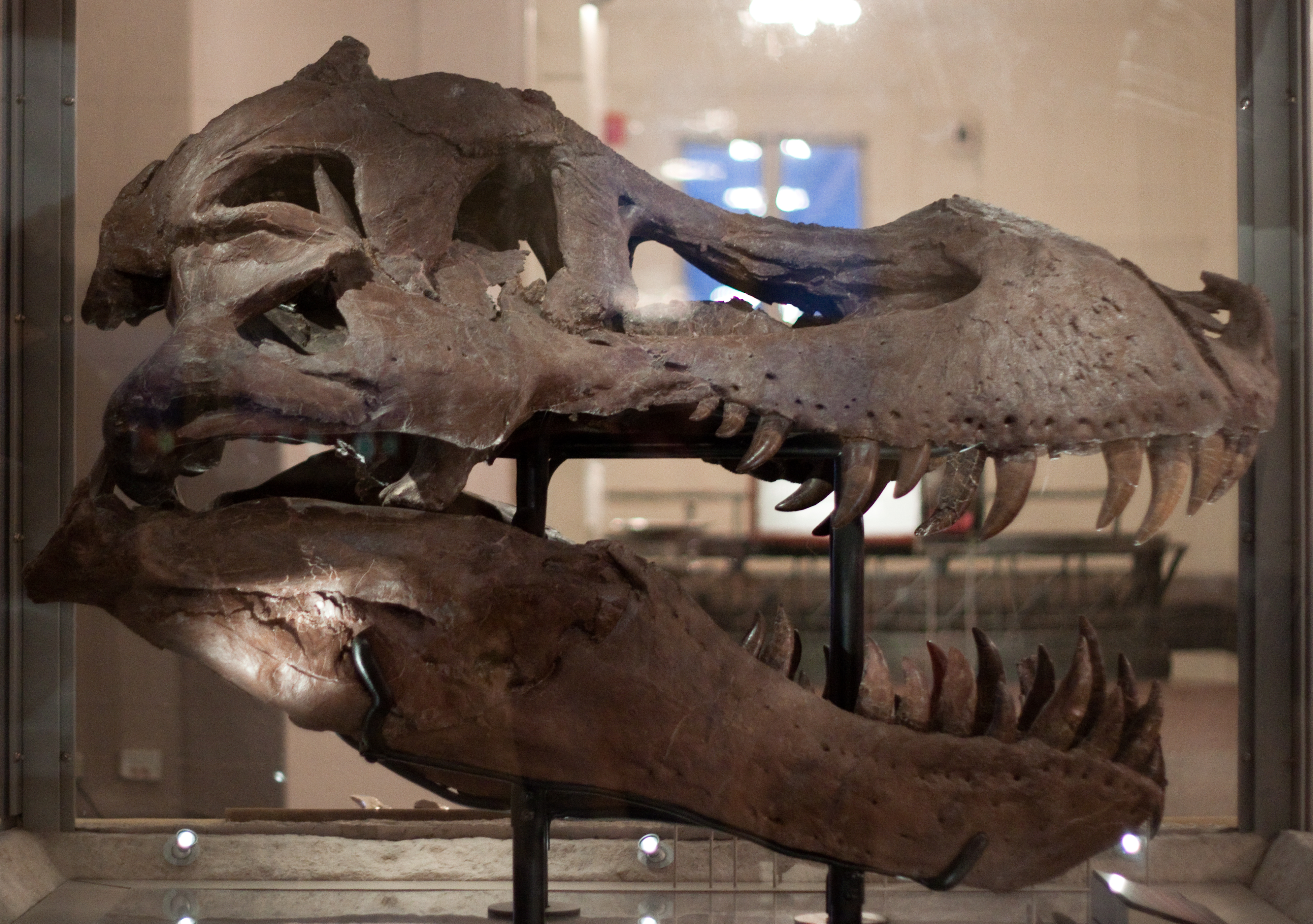 Here's Sue's head. Her head is too heavy (600 lbs.) to put on the rest of the skeleton, so they put it on display in this glass case.